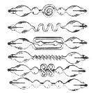 Drawing of typical Geissler tubes, from 1911. Geissler tubes, invented by German glassblower Heinrich Geissler were the first gas discharge tubes. When a high voltage from an induction coil was applied between the two metal electrodes at the ends, the tube lit up with many glowing colors. They were made throughout the latter 1800s as novelties to demonstrate the new science of electricity. By 1910 the technology was commercialized and evolved into neon signs.